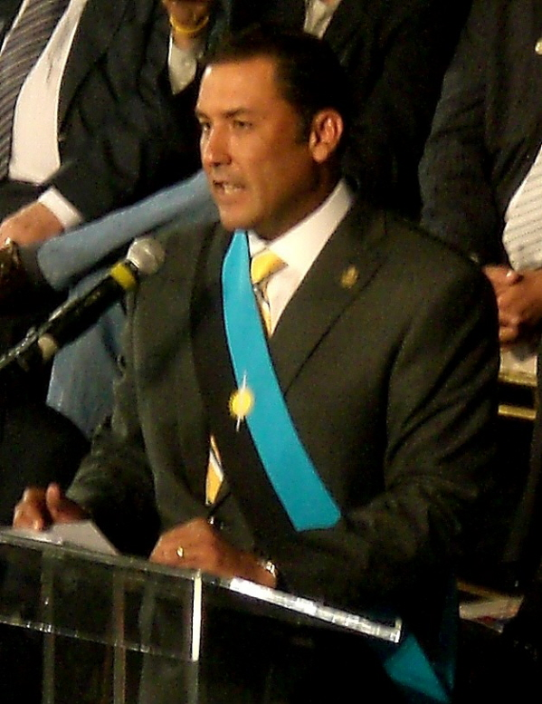 Venezuelan politician and current governor of Zulia state Pablo Pérez.